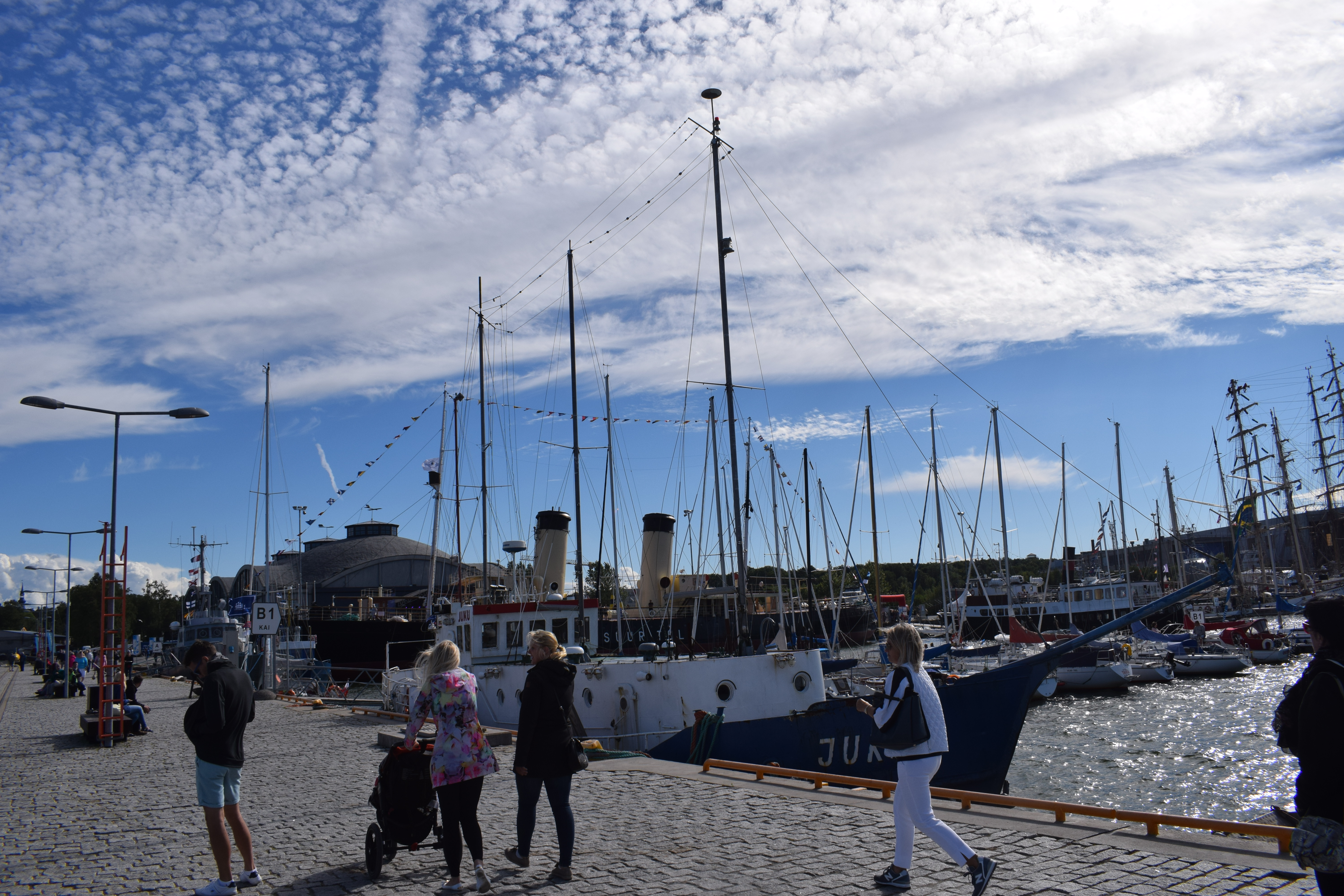 Juku in Lennusadam